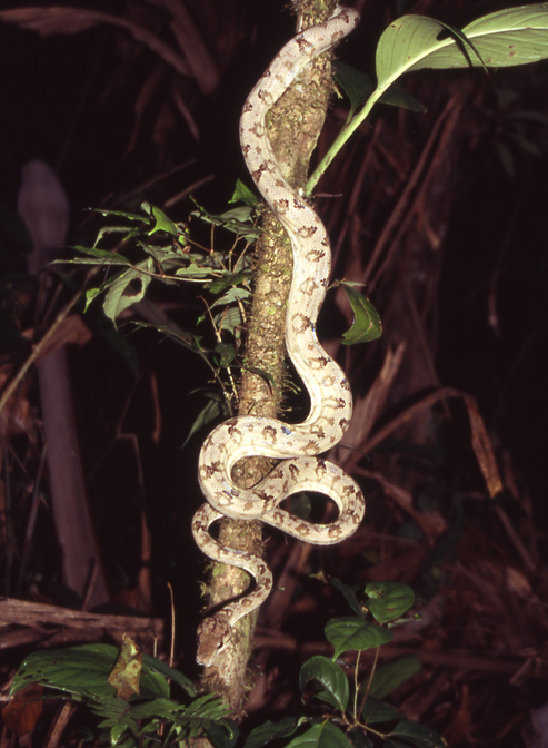 Corallus hortulanus